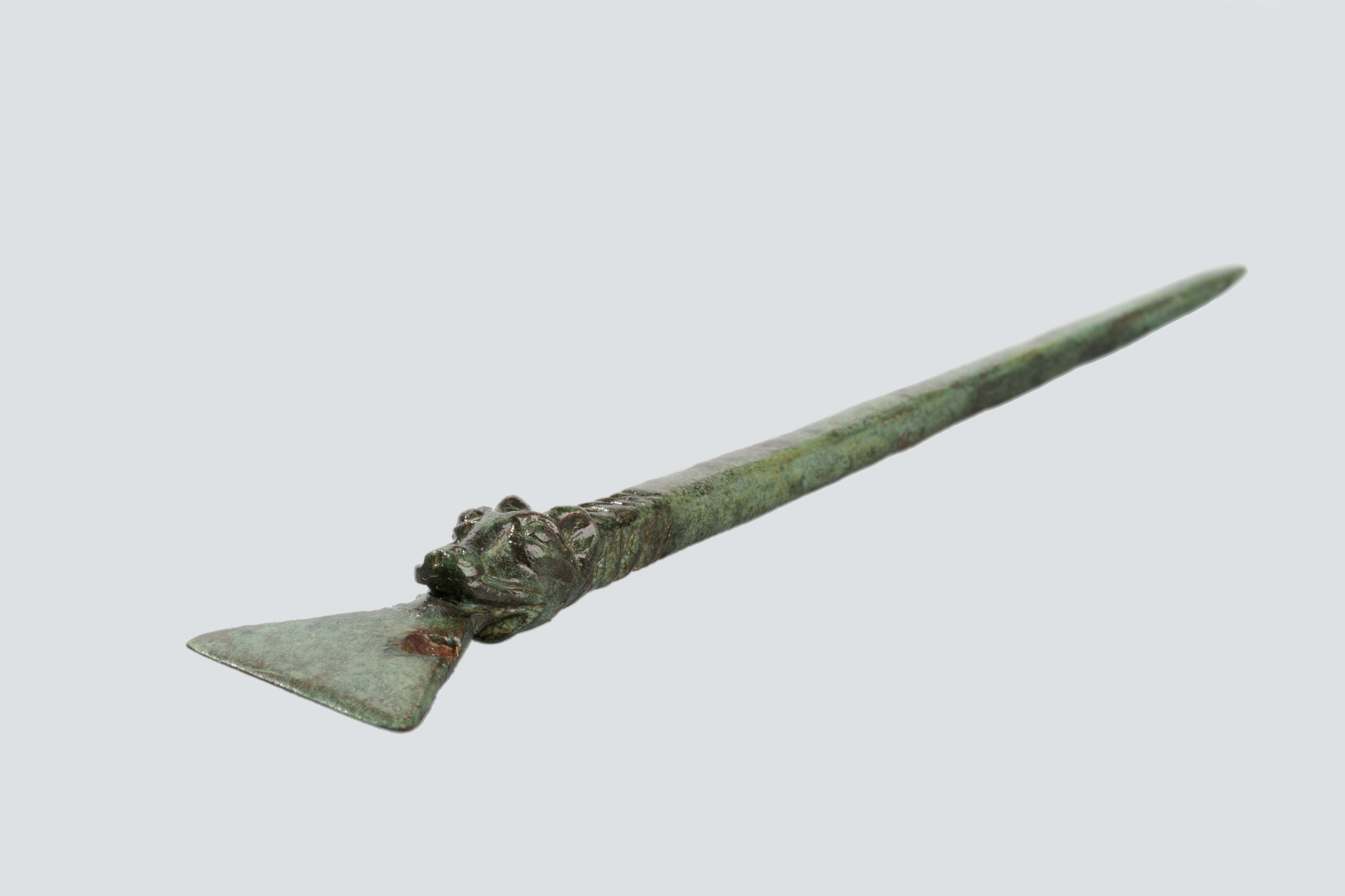 Medieval bronze stylus, found in Tiel.